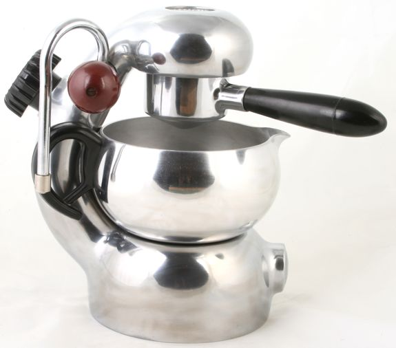 Atomic coffee maker designed by Giordano Robbiati